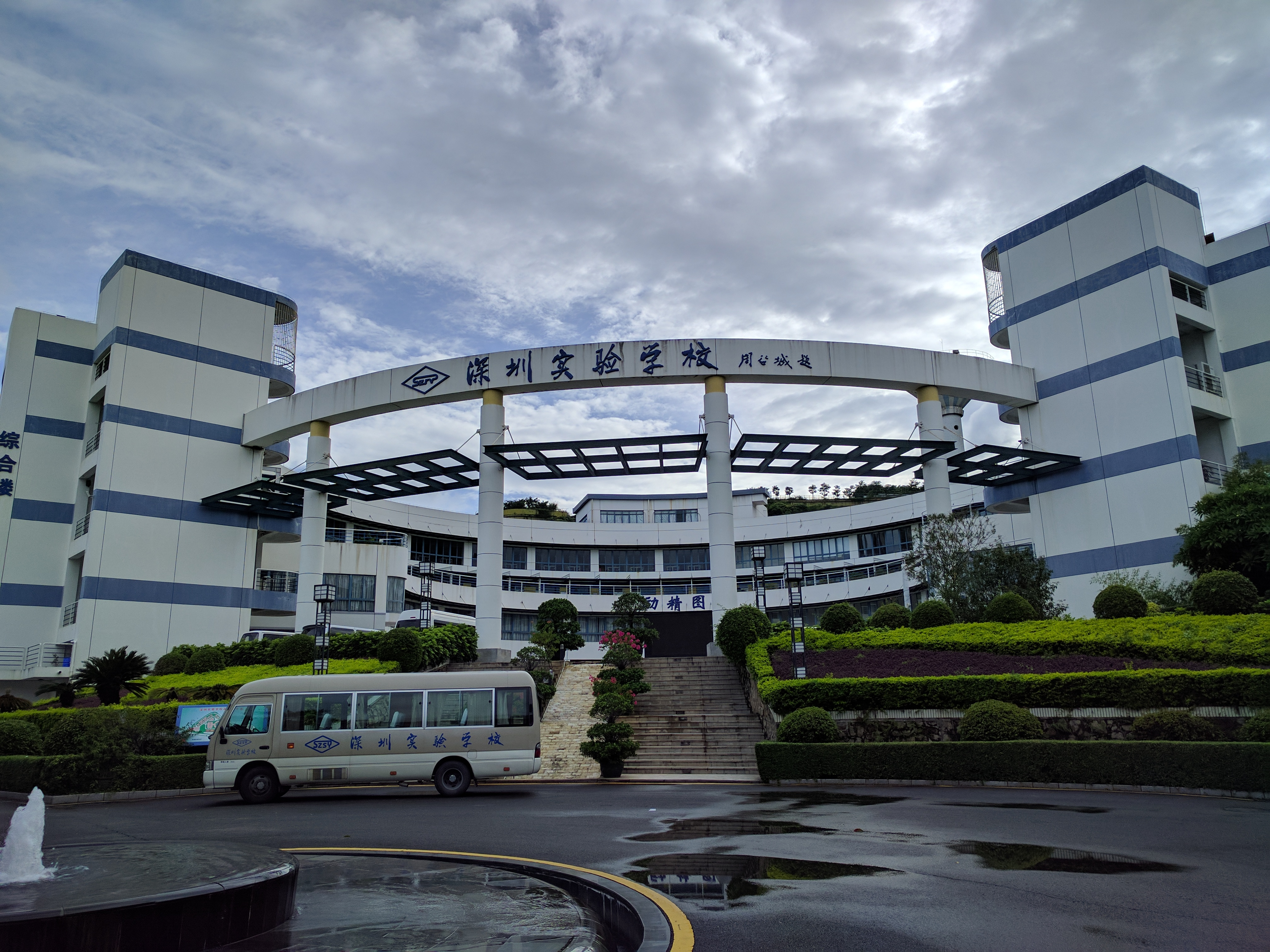 Front Gate of SZEXPSD